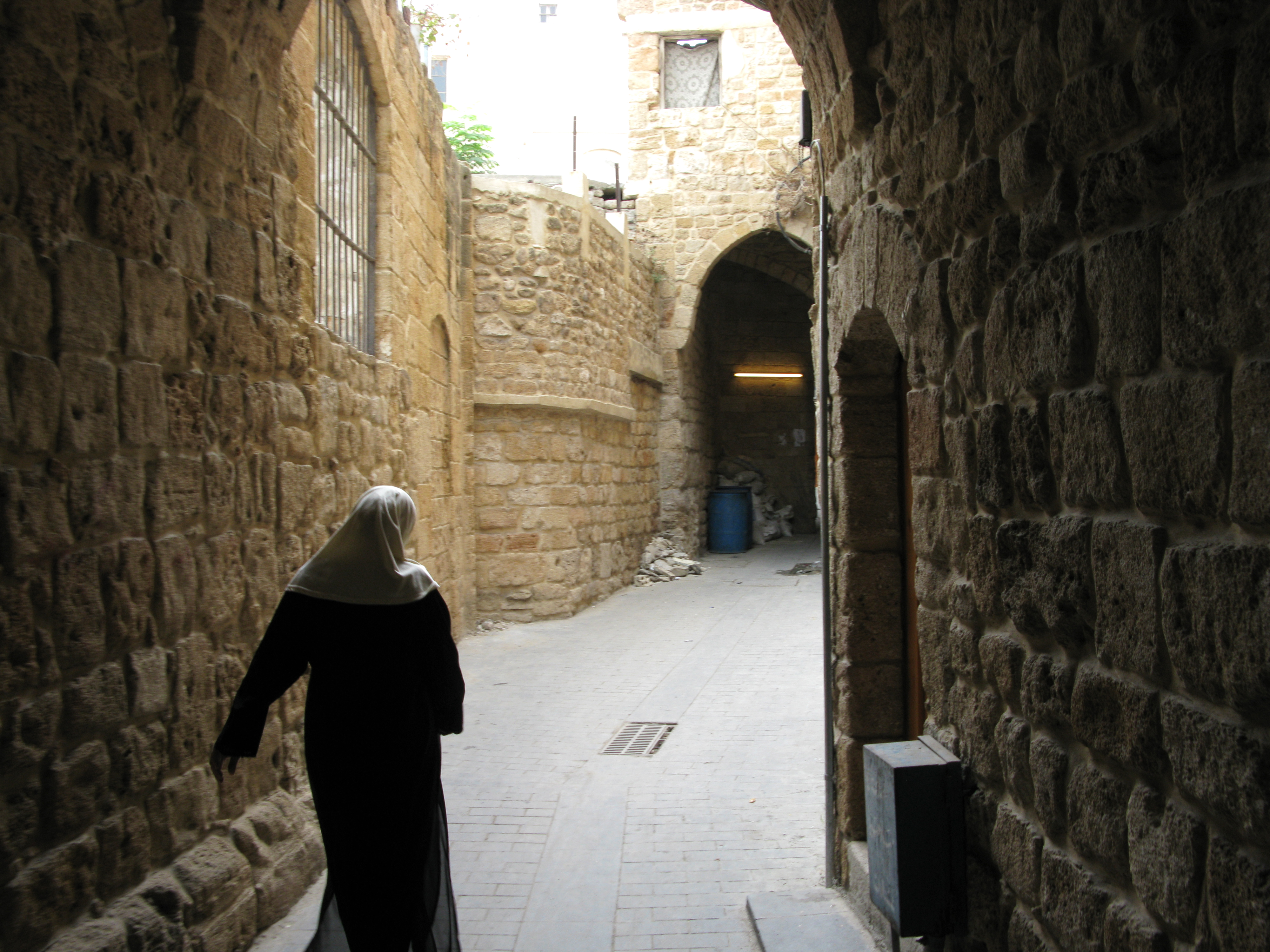 Old town of Sidon, Saida, Lebanon. The cool, winding streets of the souks retain their ancient origins. This ancient Phoenician city is said to be inhabited since 4000 B.C.